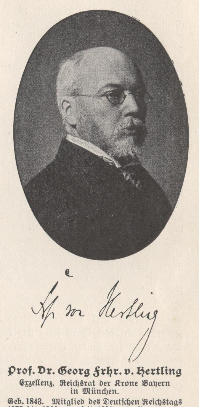 Georg von hertling German chancellor